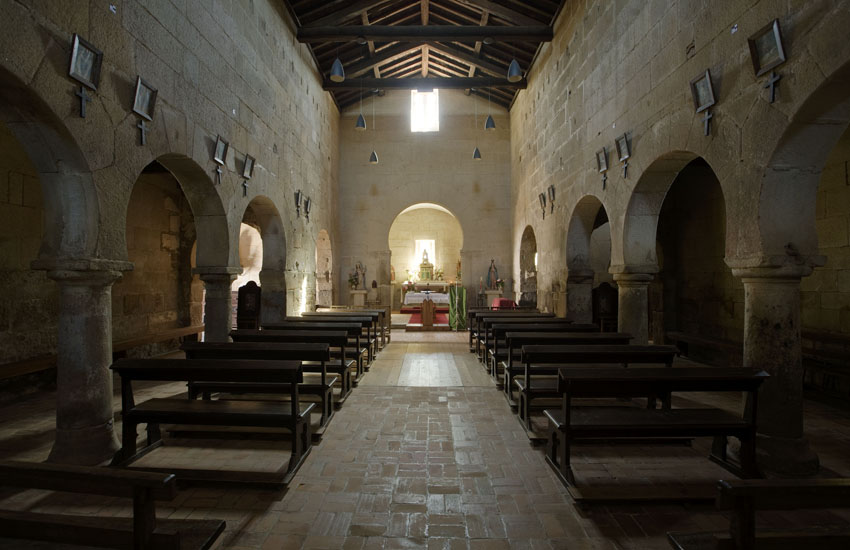 This file was uploaded for Wiki Loves Monuments in Portugal with the unique identifier 70268.